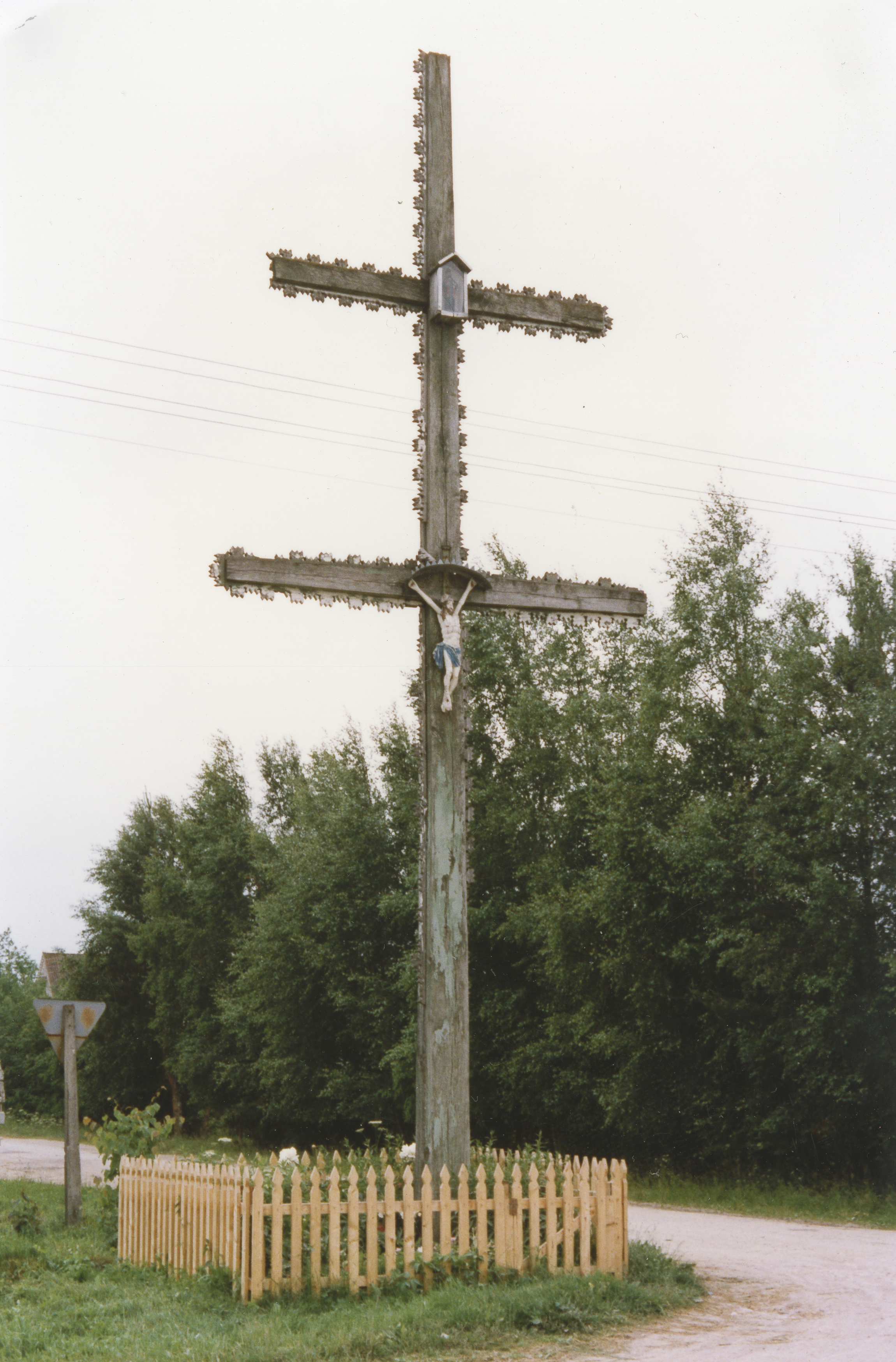 Cross at the crossroads of the village of Kumpikai, Kretinga district municipality, LithuaniaLietuvių: Kumpikų kaimo kryžkelės kryžius, Kretingos rajono savivaldybė, Lietuva